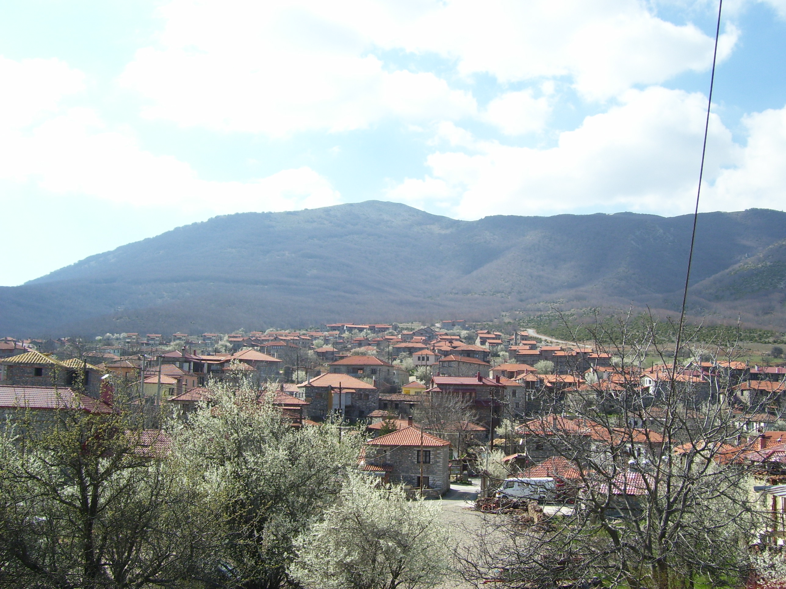 Village of Agios Athanasios, Vegoritida Municipality, Pella Prefecture, Macedonia, Greece.